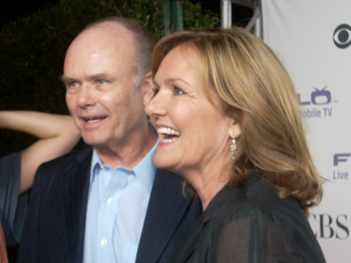 CBS Comedies Premiere Party Sponsored by Flo TV, Area on La Cienega, Los Angeles - Sept. 17, 2008.